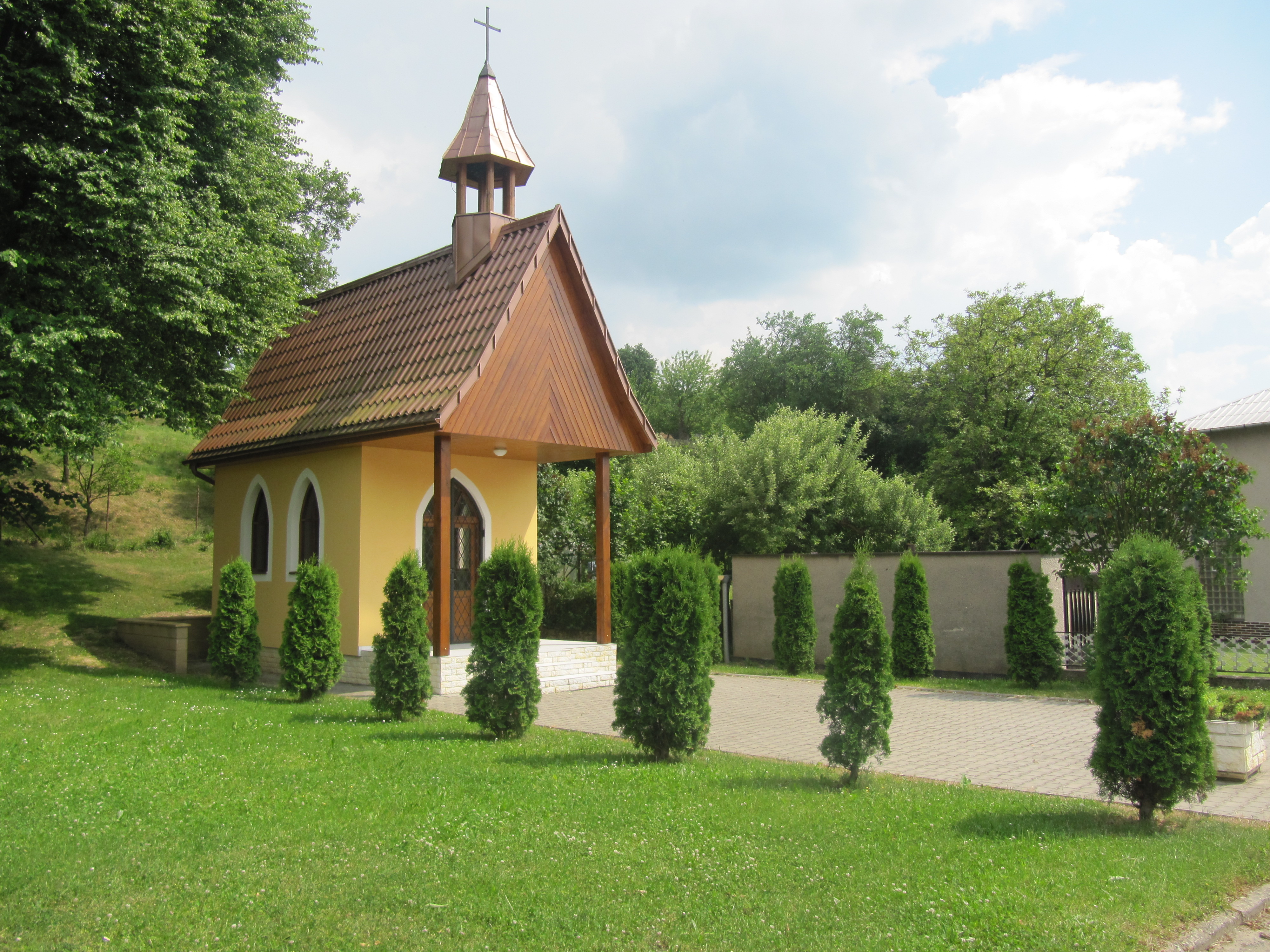 Ostrata in Zlín District, Czech Republic. Chapel. This photograph was taken within the scope of the third year of the 'Czech Municipalities Photographs' grant.